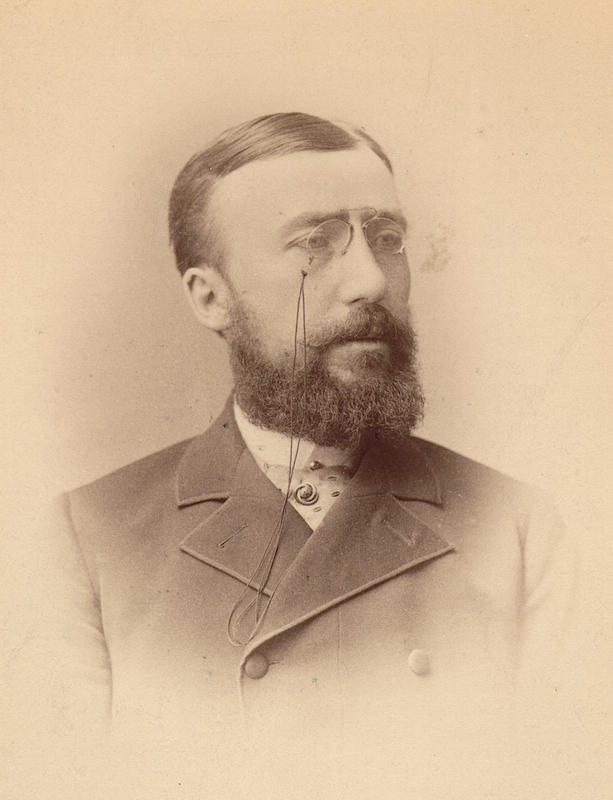 Portrait of Pascal Poirier (1852-1933).